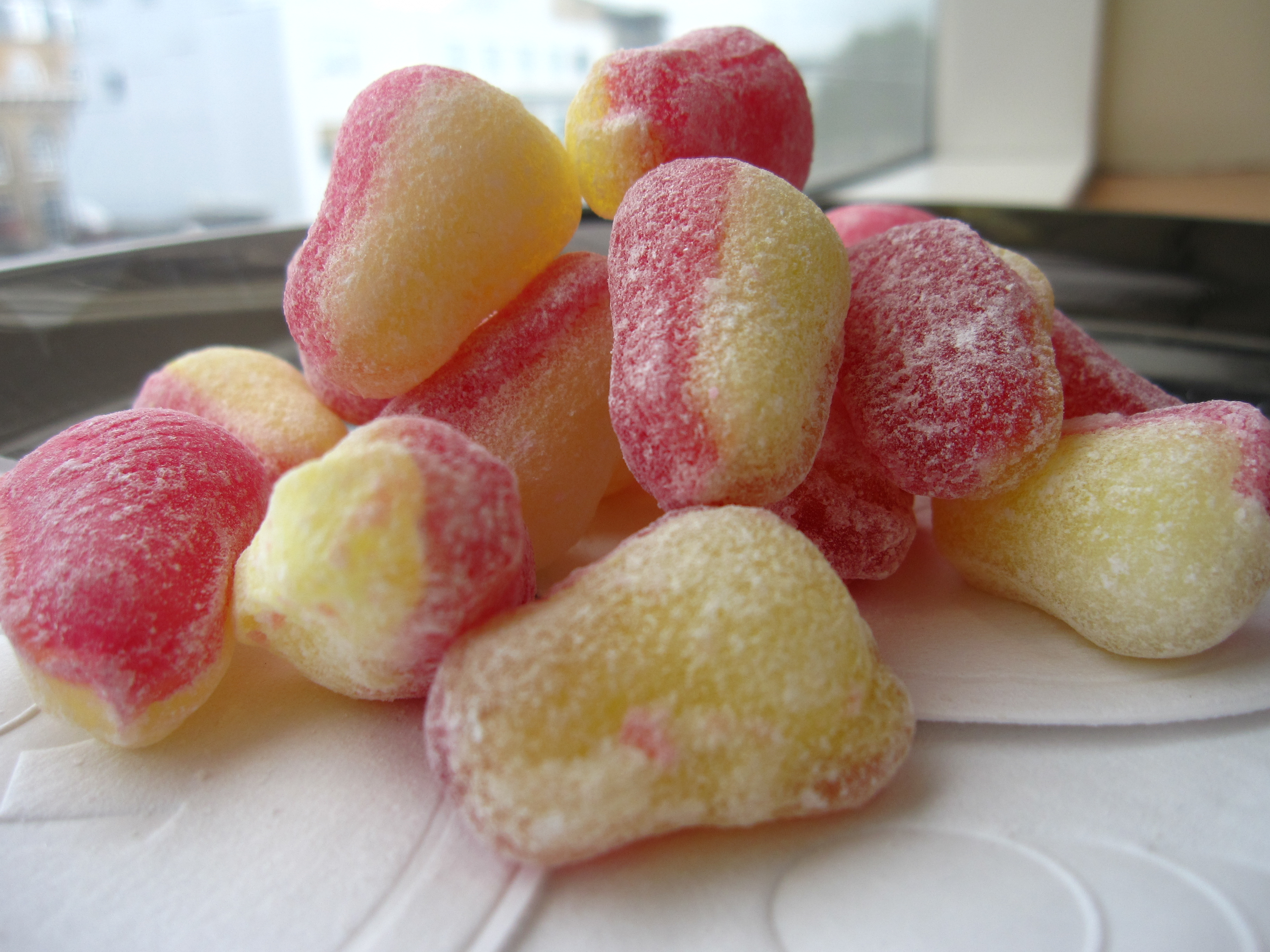 A pear drop is a British boiled sweet made from sugar and flavourings. The classic pear drop depicted here is a combination of half pink and half yellow in a pear-shaped drop about the size of a thumbnail.